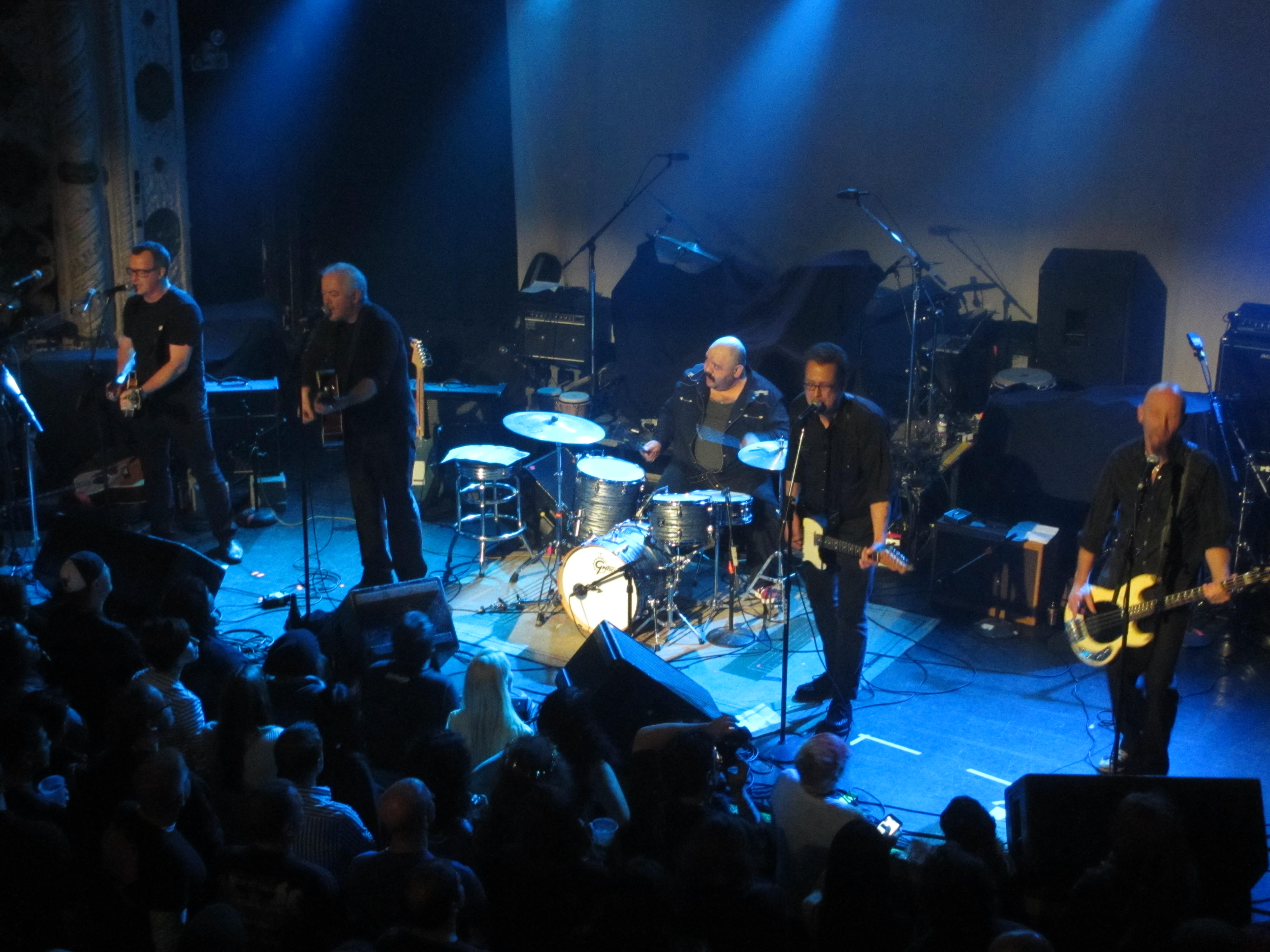 Waco Brothers @ Metro, Chicago 1/11/2013